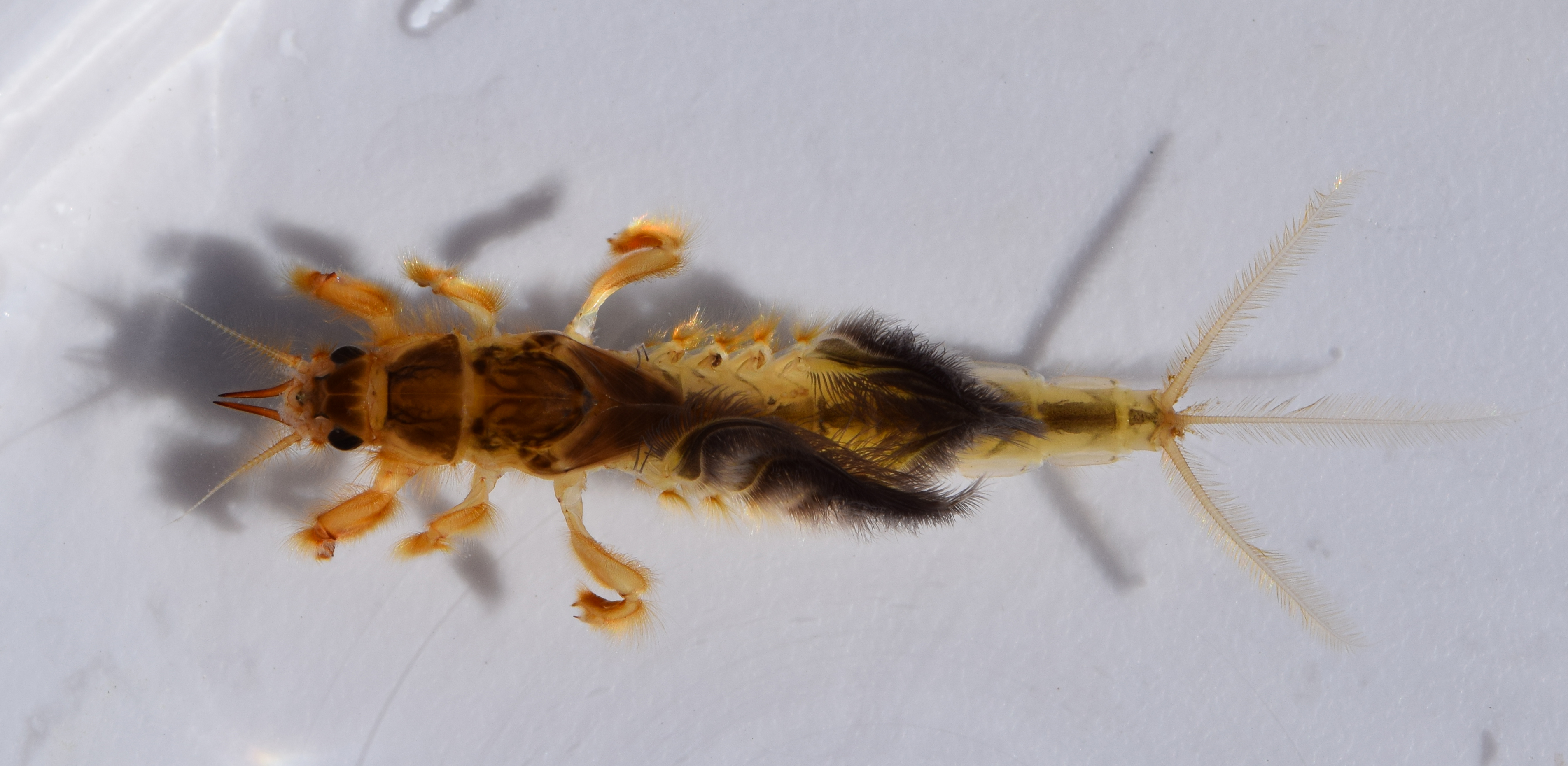 A Hexagenia limbata (burrowing mayfly) nymph at the University of Mississippi Field Station. Note that it is missing some gills on its right side.